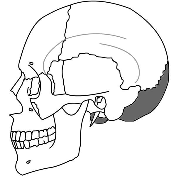 The occipital bone and its position.